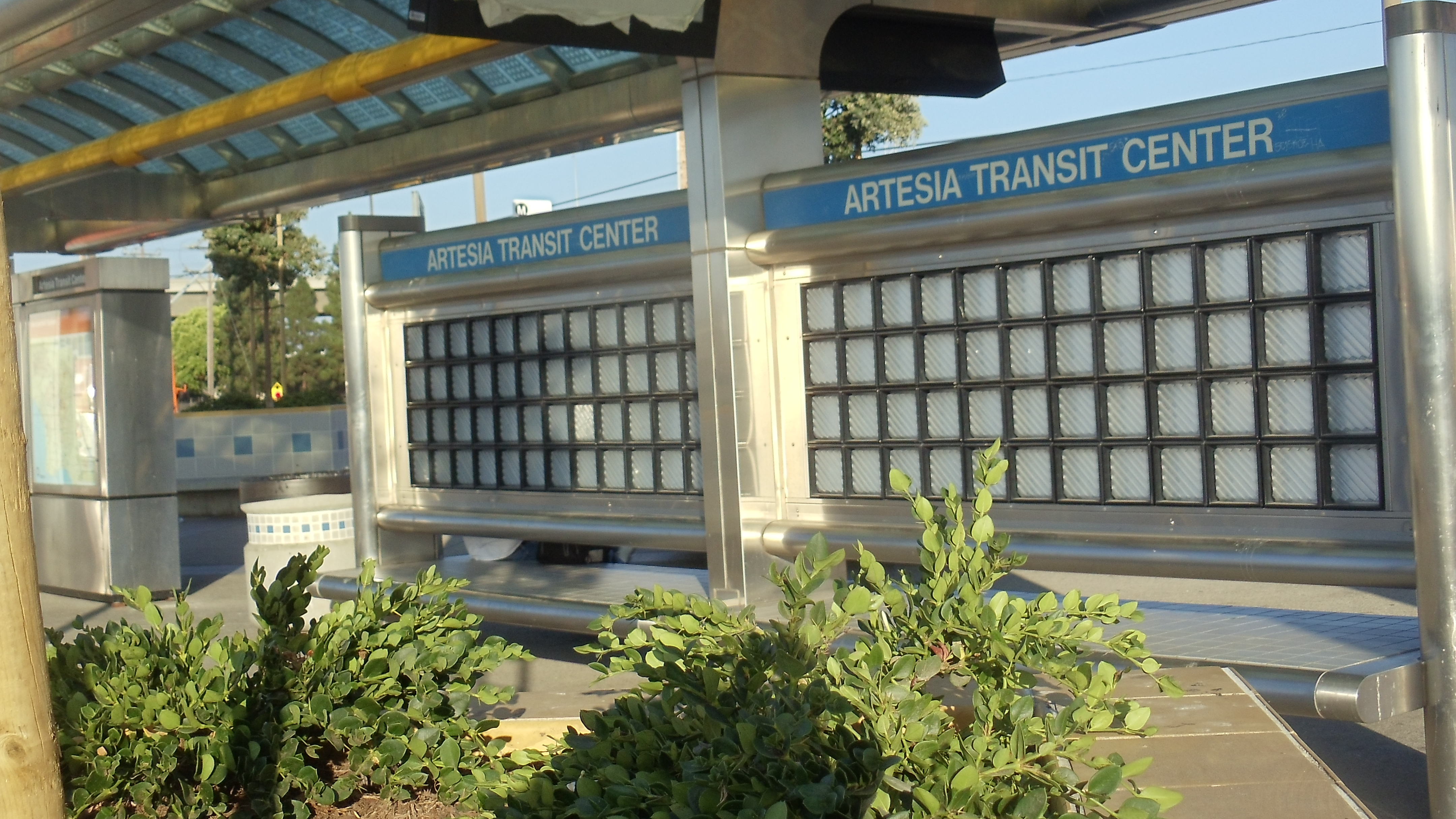 Station sign.